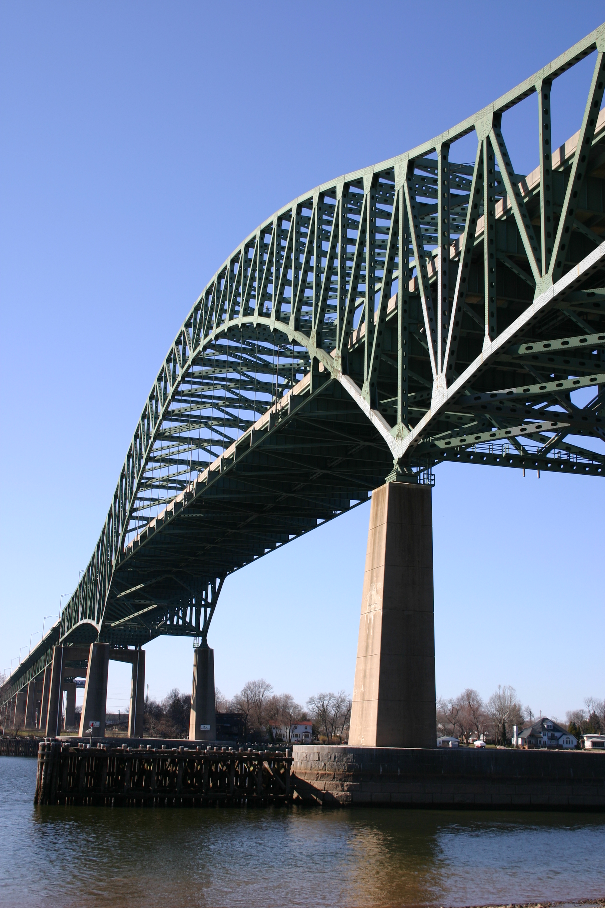 Delaware River – Turnpike Toll Bridge, author: andrew aiello